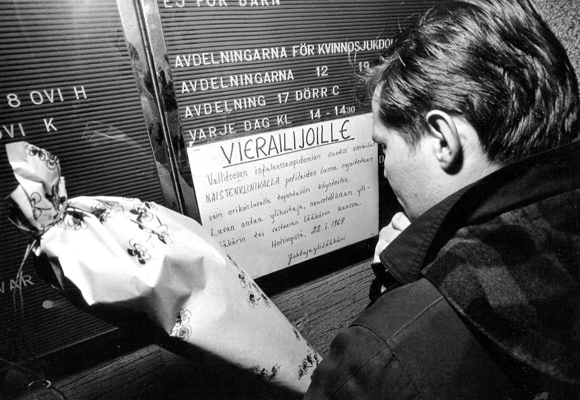 Photograph of the information board of Naistenklinikka (Women’s Hospital) in Helsinki, Finland. Because of the “Hongkong influenza” epidemic, no visitors were allowed to the hospital.